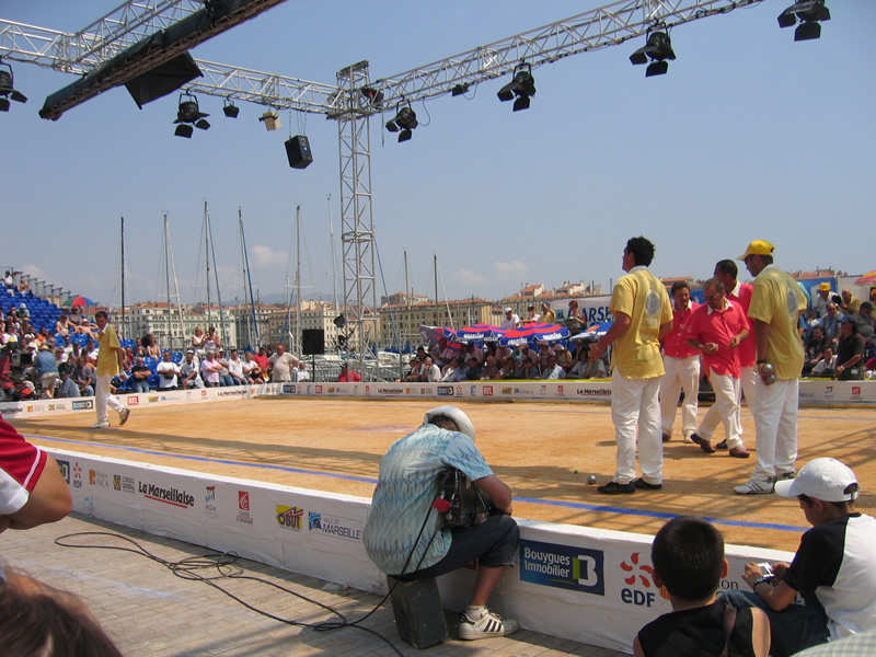 Pétanque cup (La Marseillaise 2006) in Marseille. This is the semifinal on the central court at Vieux port.